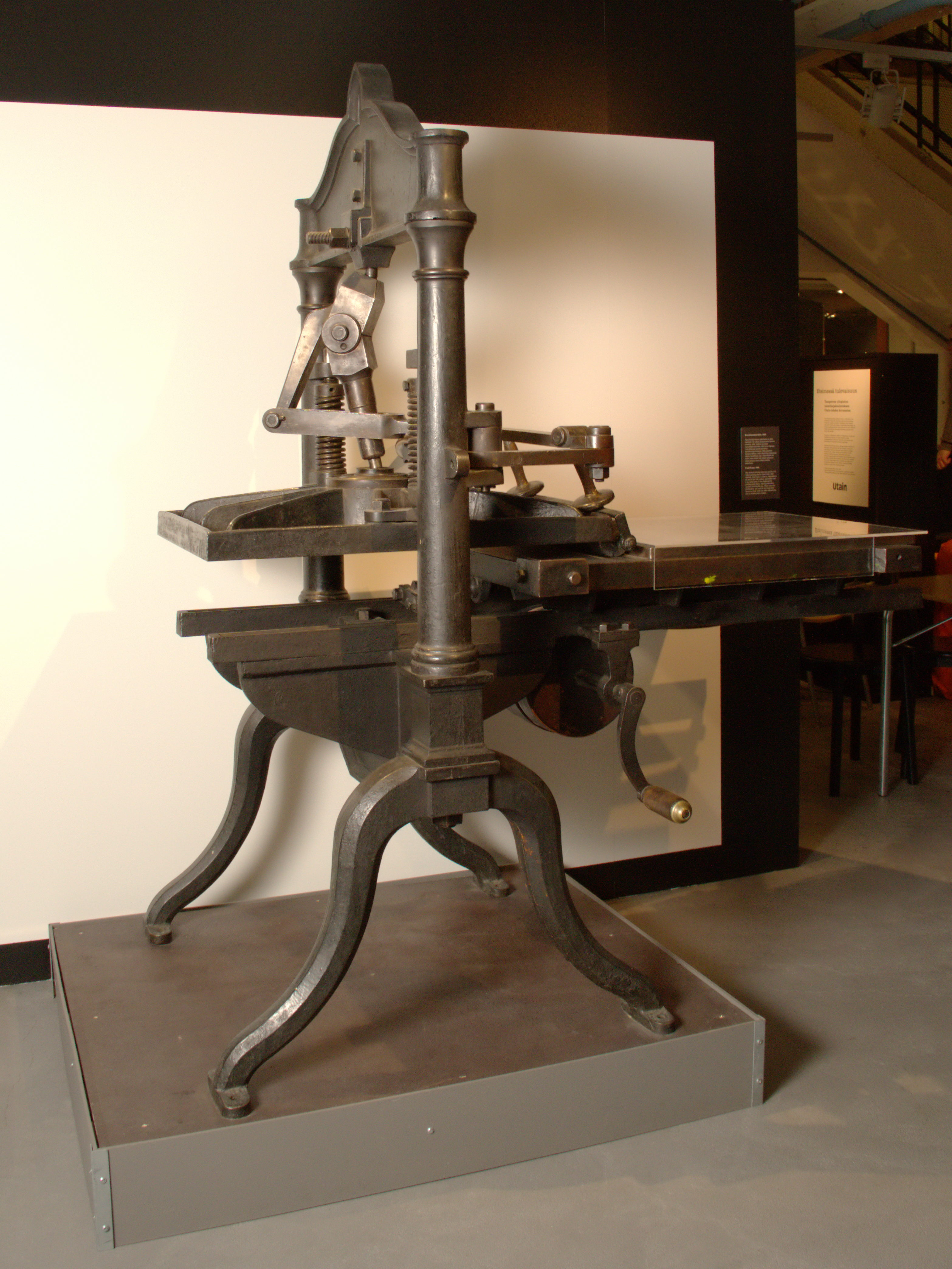 Proof press in Rupriikki Media Museum, Tampere, Finland.